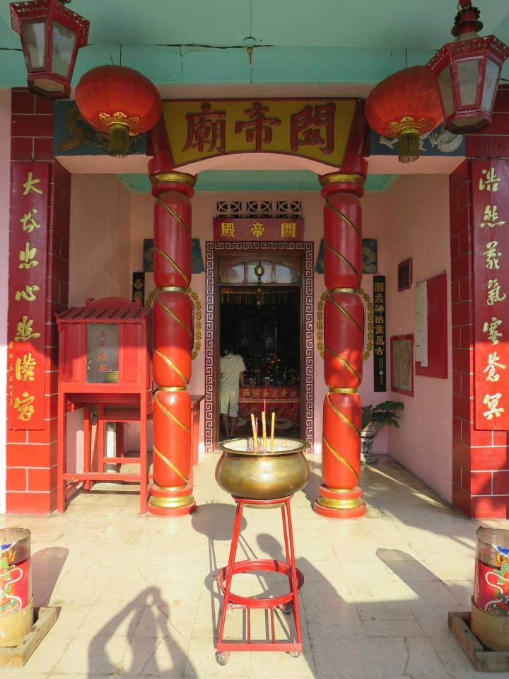 Chinese temple in Dili